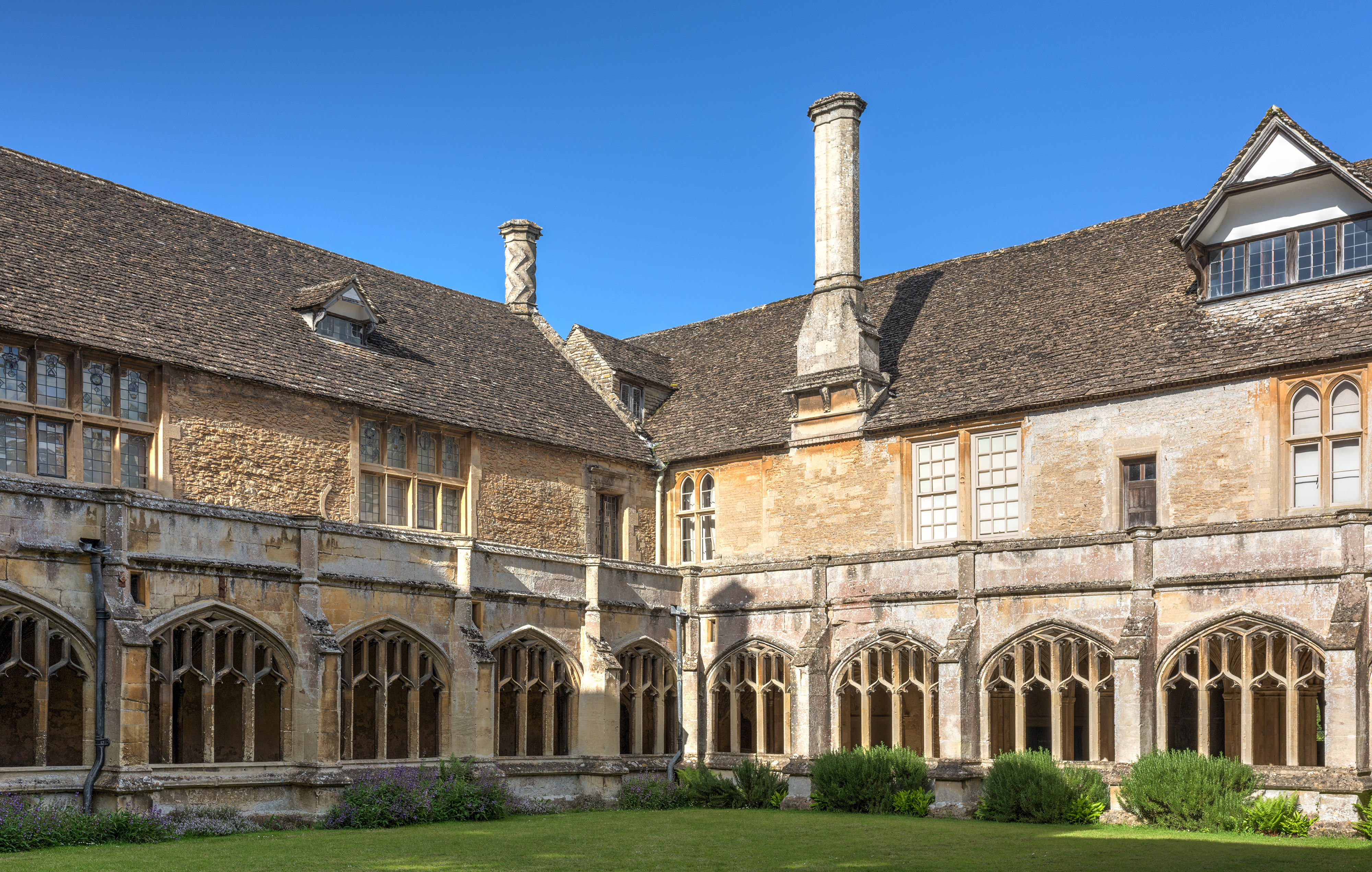 The internal courtyard of the cloisters at Lacock Abbey in Wiltshire, England.